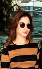 Tamannaah Bhatia snapped at the domestic airport,Mumbai